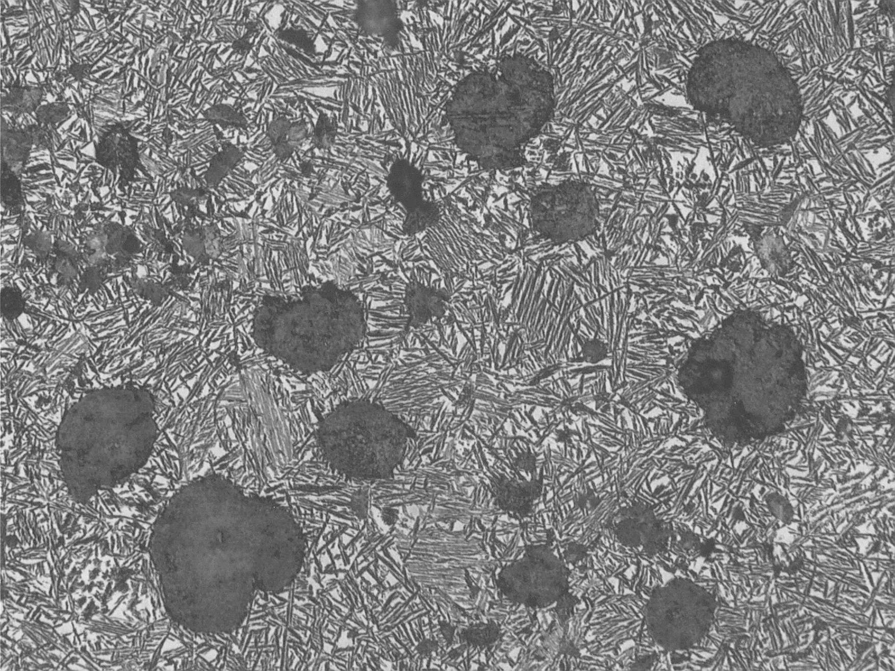 Cast iron EN-GJS-800-8 (ADI), etched 3% Nital, needle-like ferrite + austenite / spherical graphite, magnification 500:1 (if printed 12 x 9 cm)